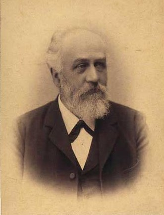 Hans Severin Jensen (1833-1893), Danish furniture maker